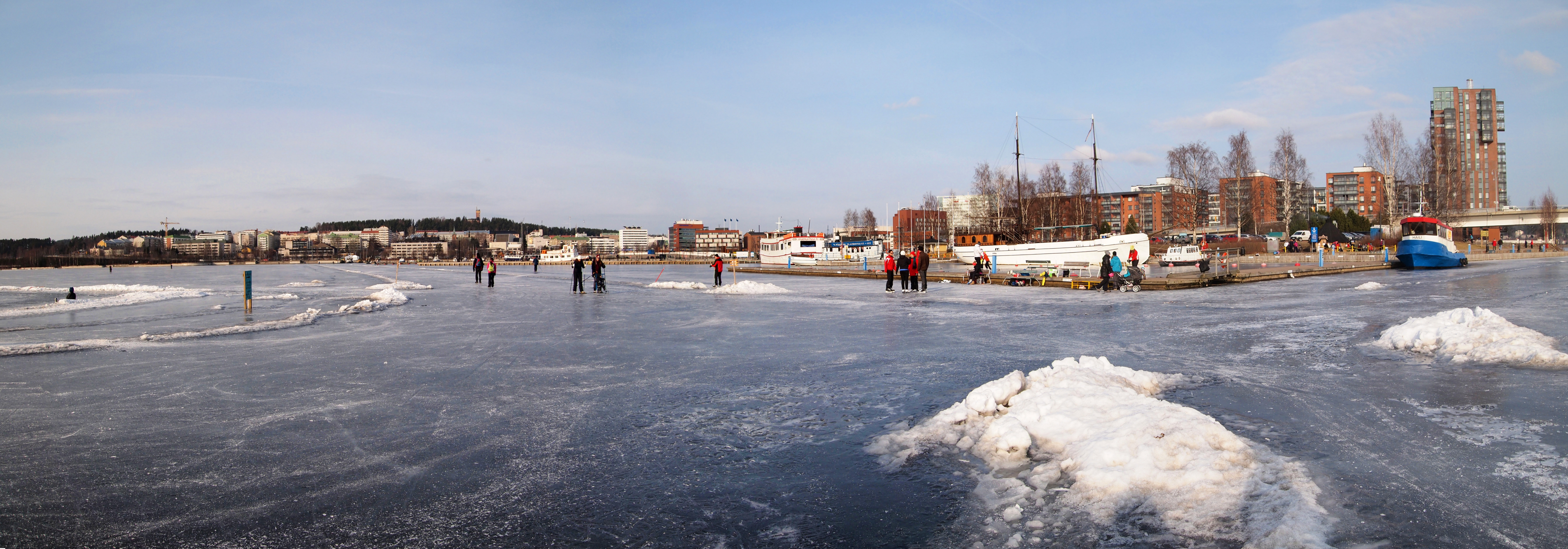 Ice skating rink on lake Jyväsjärvi. This photograph was taken with a Olympus E-PL1.